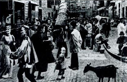 Postcard of unknown authorship, dated 1898, showing a street scene on Doyers Street, New York City. Source: "Manhattan's Chinatown," by Daniel Ostrow, Mary Sham, Arcadia Publishing: 2008